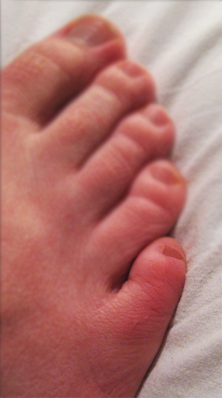 Little toe